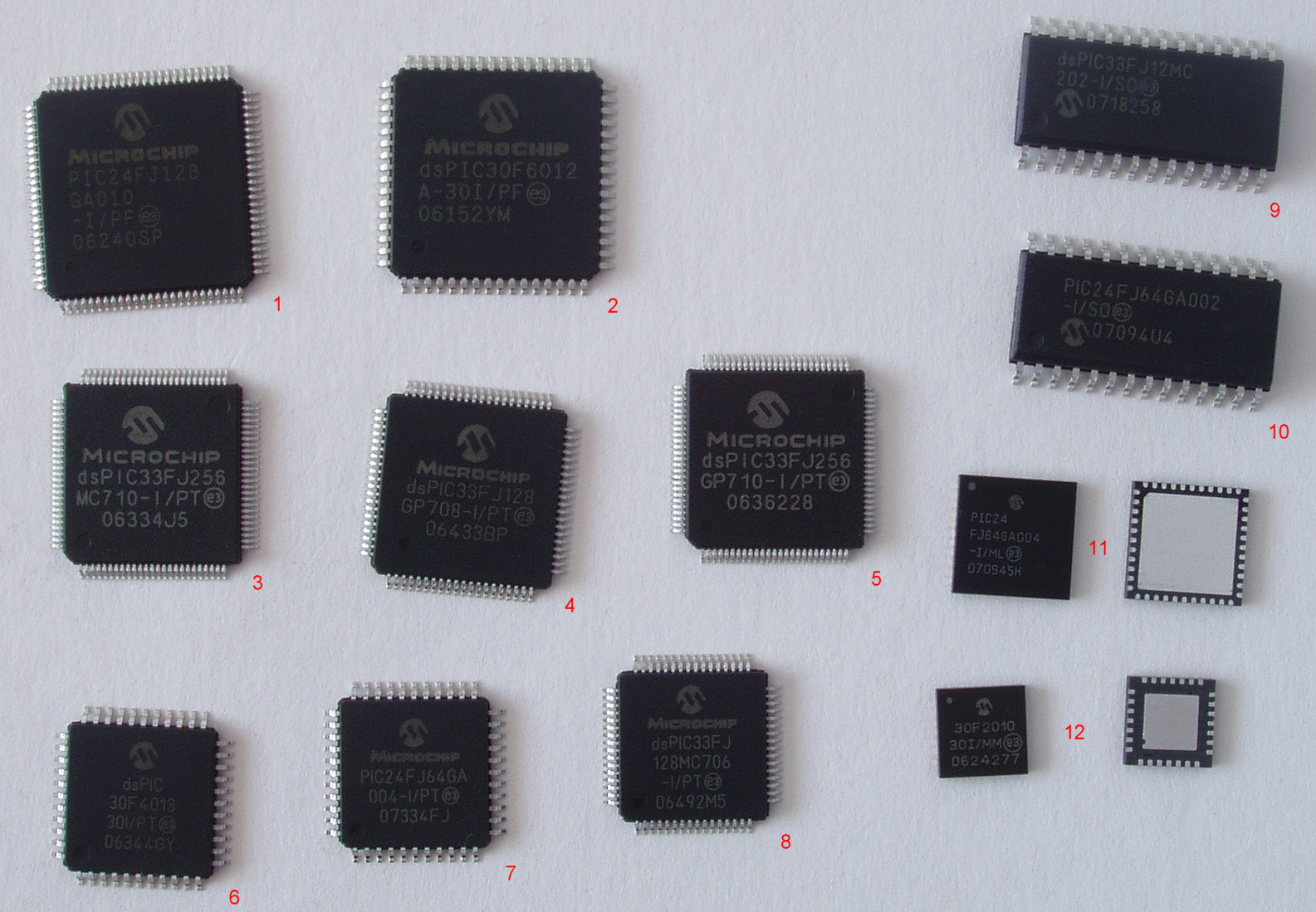 some 16 Bit Microchip PIC and dsPIC Microcontroller